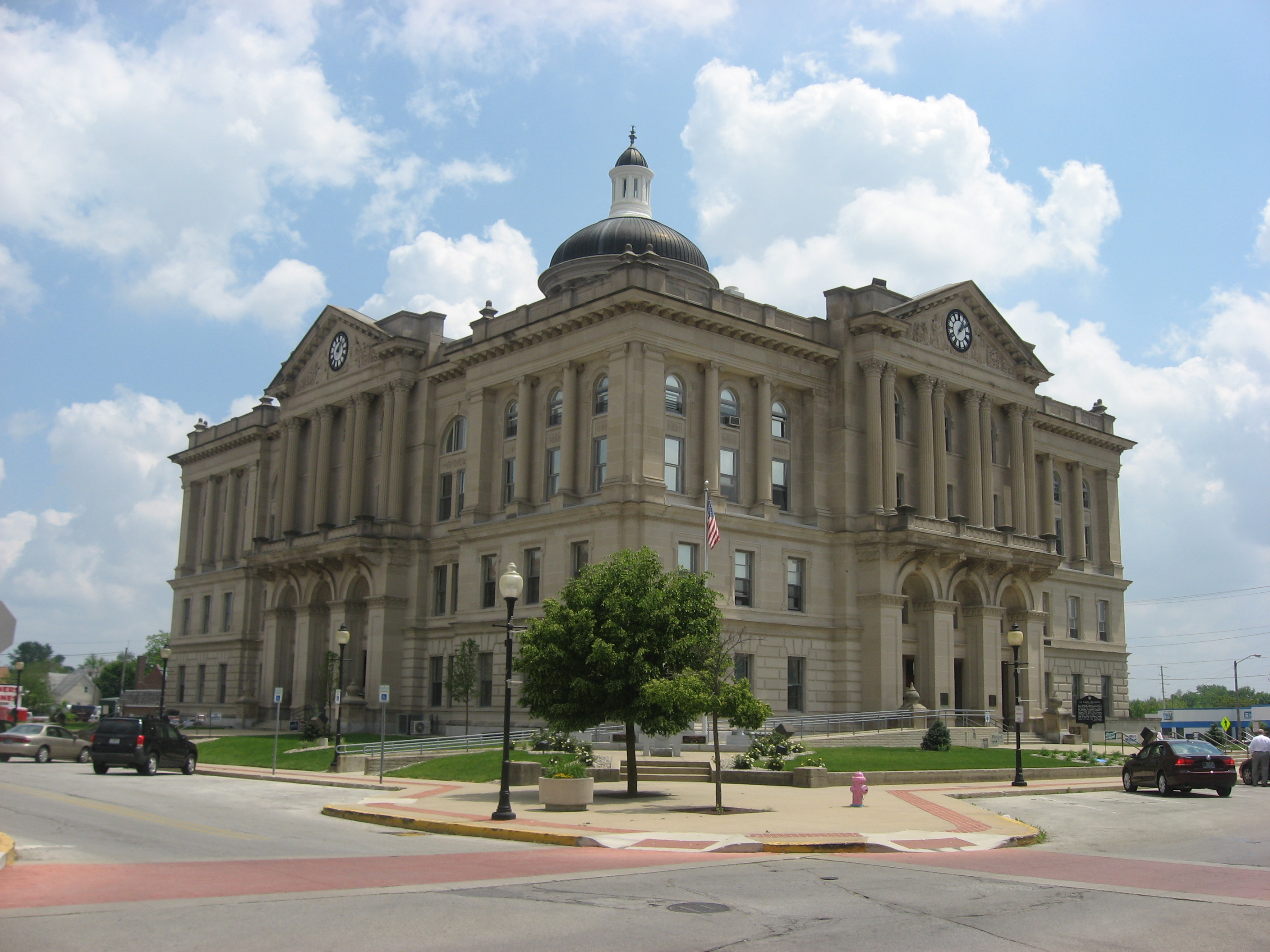 Northern and western sides of the Huntington County Courthouse, located on Courthouse Square (surrounded by Franklin, Jefferson, Court, and Warren Streets) in downtown Huntington, Indiana, United States. Built in 1904, it is part of the Huntington Courthouse Square Historic District, a historic district that is listed on the National Register of Historic Places.